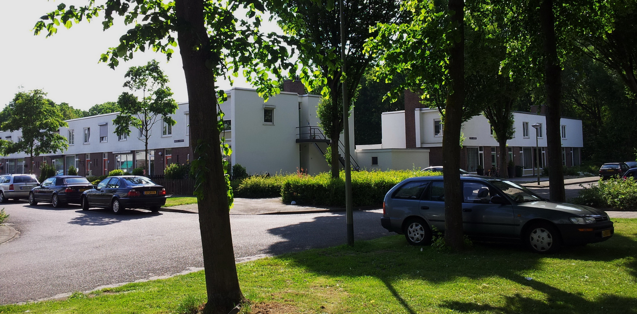 Maastricht, the Netherlands. View of residential streets in the Moluccan quarter in Heer-Maastricht.